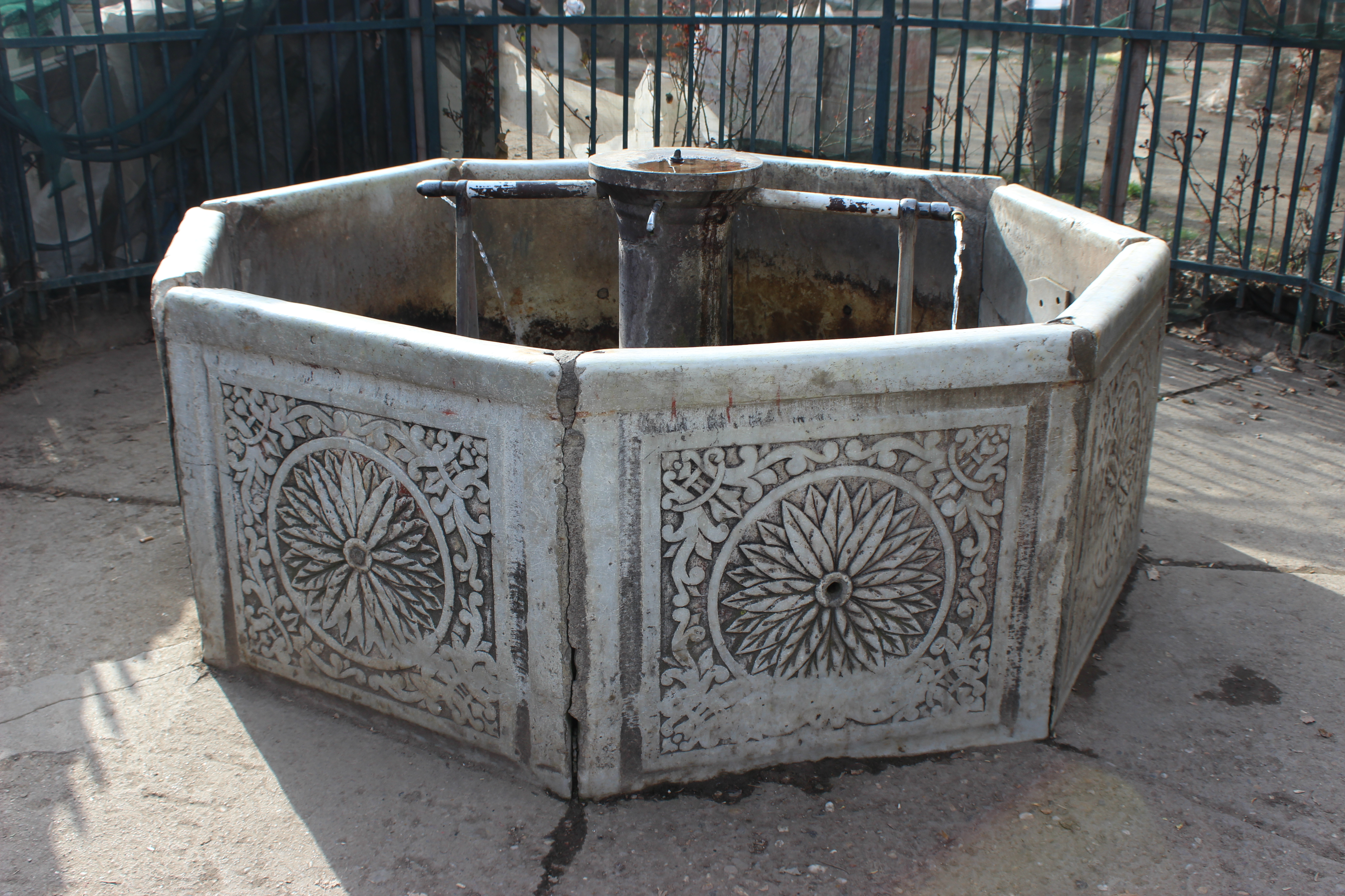 Shadërvan in the Ottoman quarter of Prishtina, Kosovo